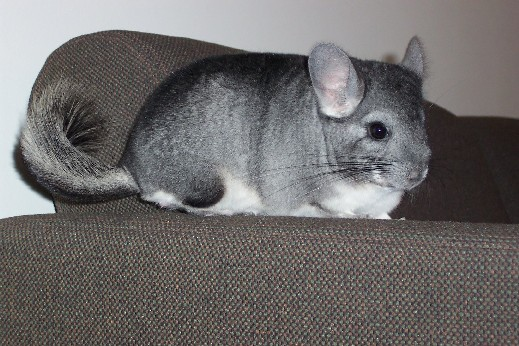 Chinchilla taking a rest on a sofa. Riverside, CA. Category:Images of rodents